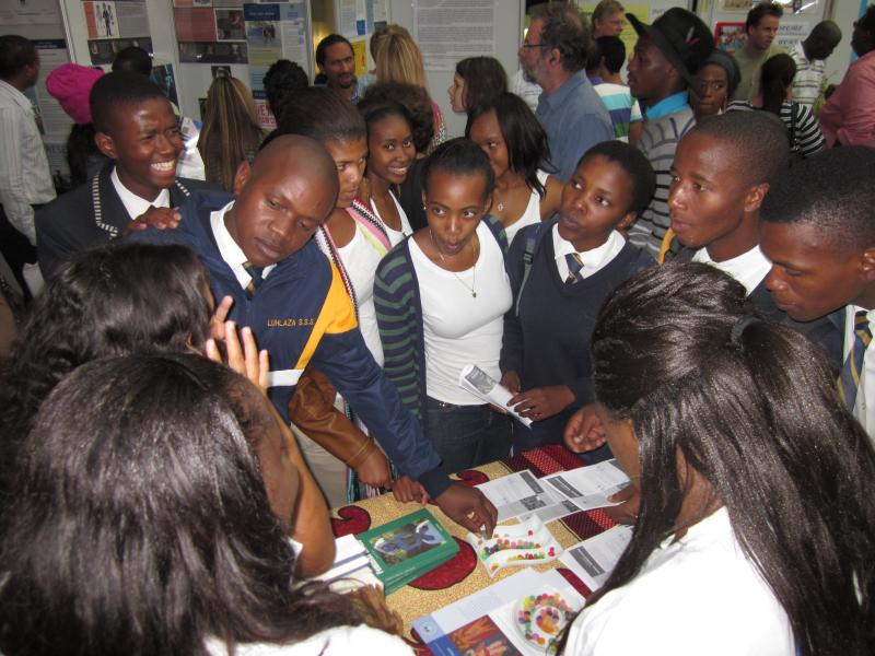 High schoolers check out the African Gender Institute during an open day at the University of Cape Town.